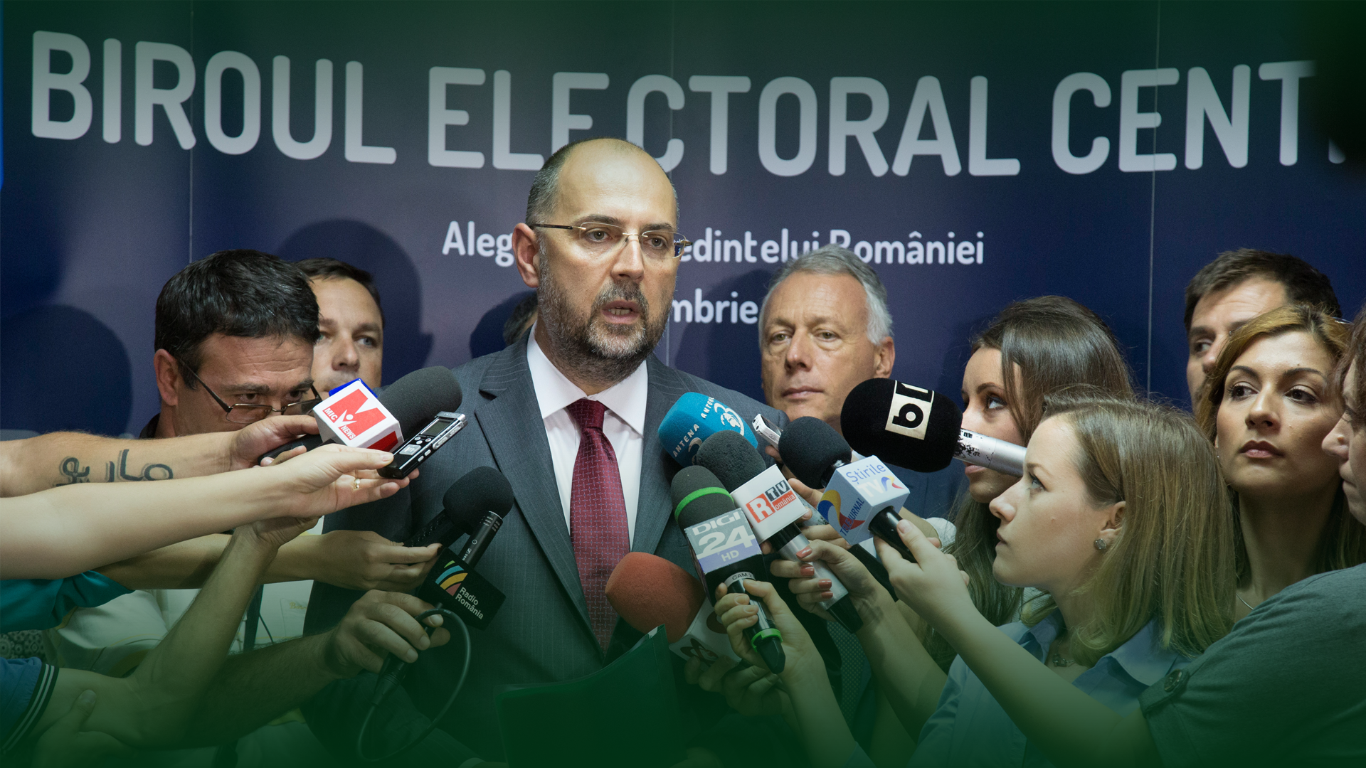 Kelemen Hunor, president of the RMDSZ as running for office as President of Romania